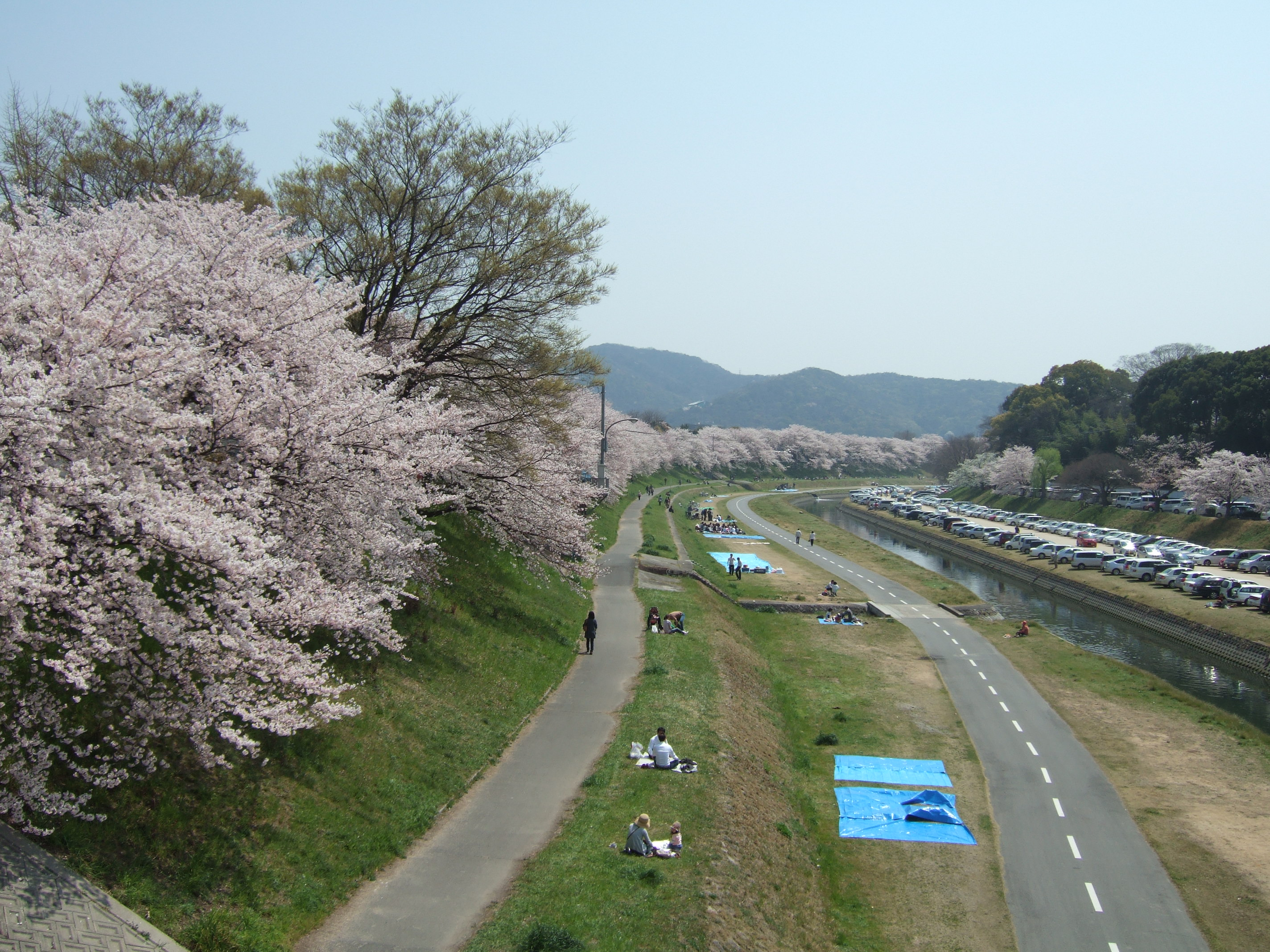 Cherry blossoms,Asahigawa(Naka-ku,Okayama City,JPN)